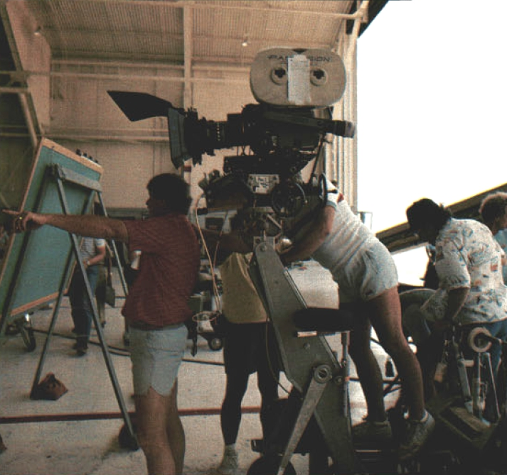 Filming of the movie "Top Gun" at Naval Air Station Miramar and NAS North Island, California (USA), in 1985.